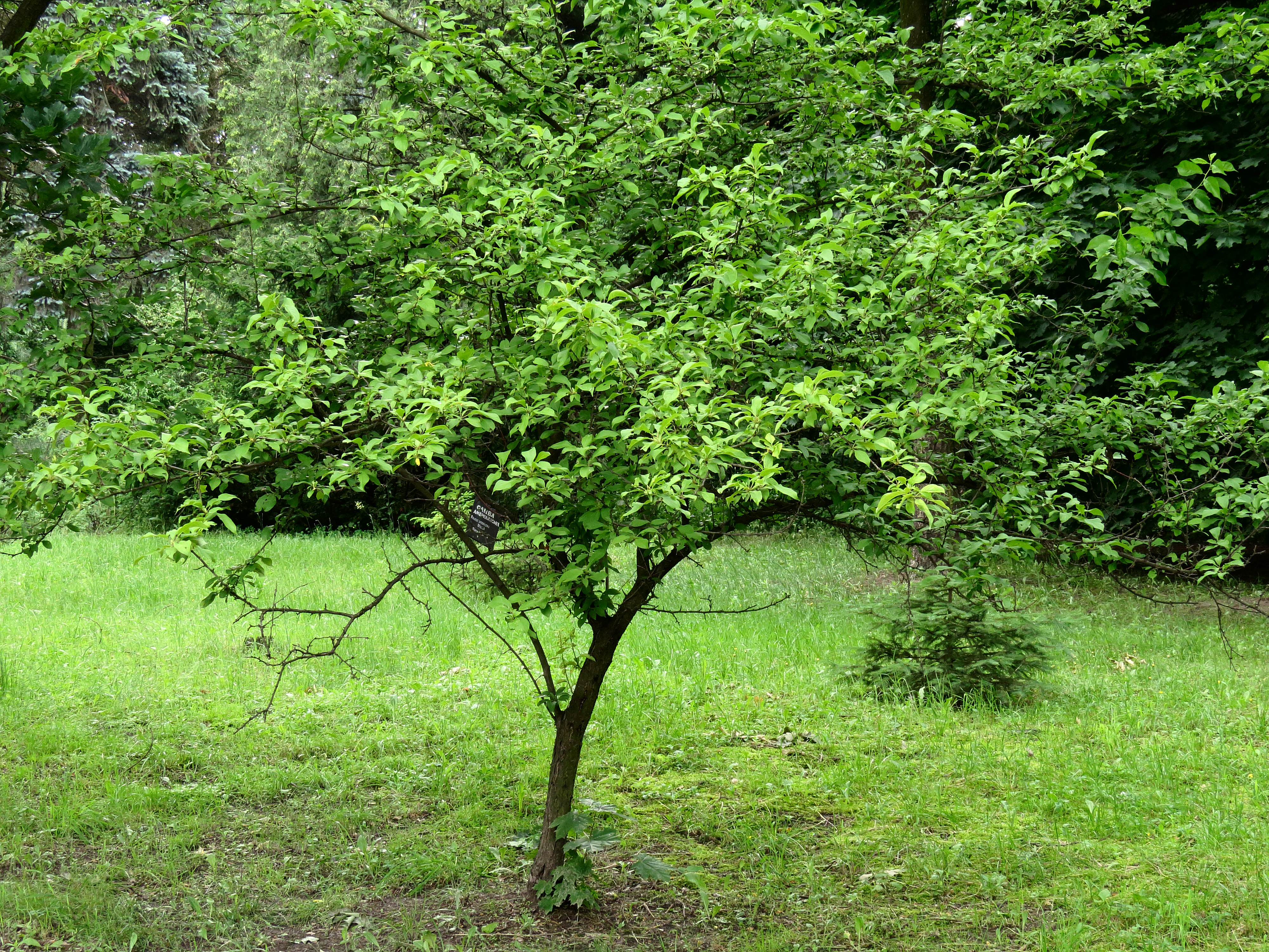 Prunus americana in Syretsky arboretum, Kiev, Ukraine